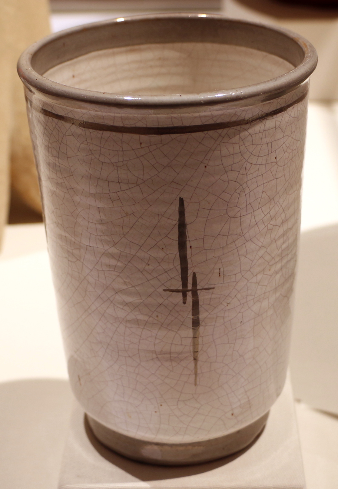 Collections of the Milwaukee Art Museum